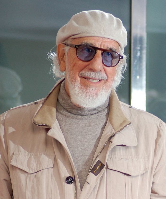 Lou Adler at a ceremony for Carole King to receive a star on the Hollywood Walk of Fame.